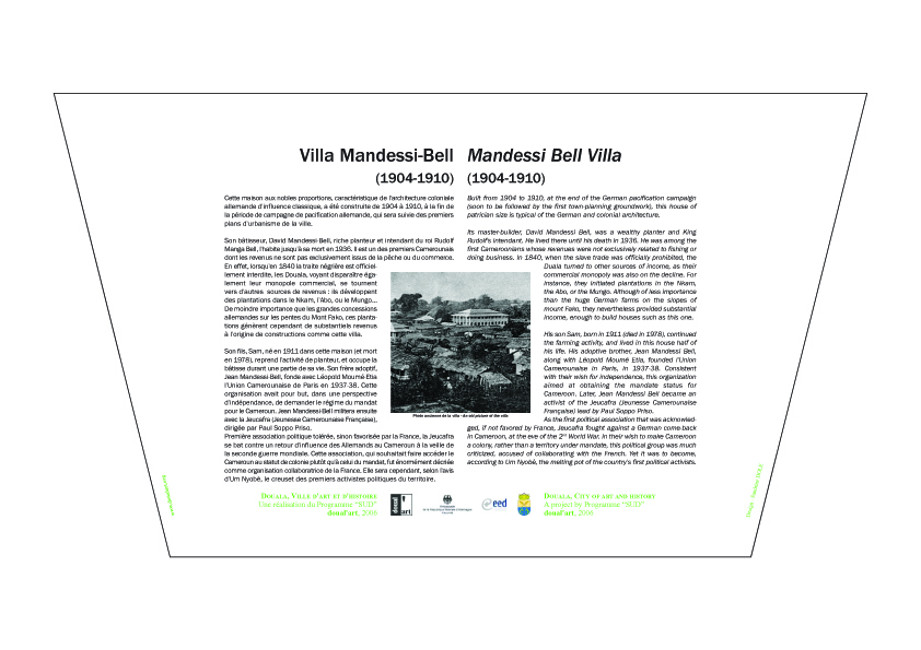 Douala ville d'art et d'histoire (Douala city of art and history), a project commissioned and produced by doual'art.